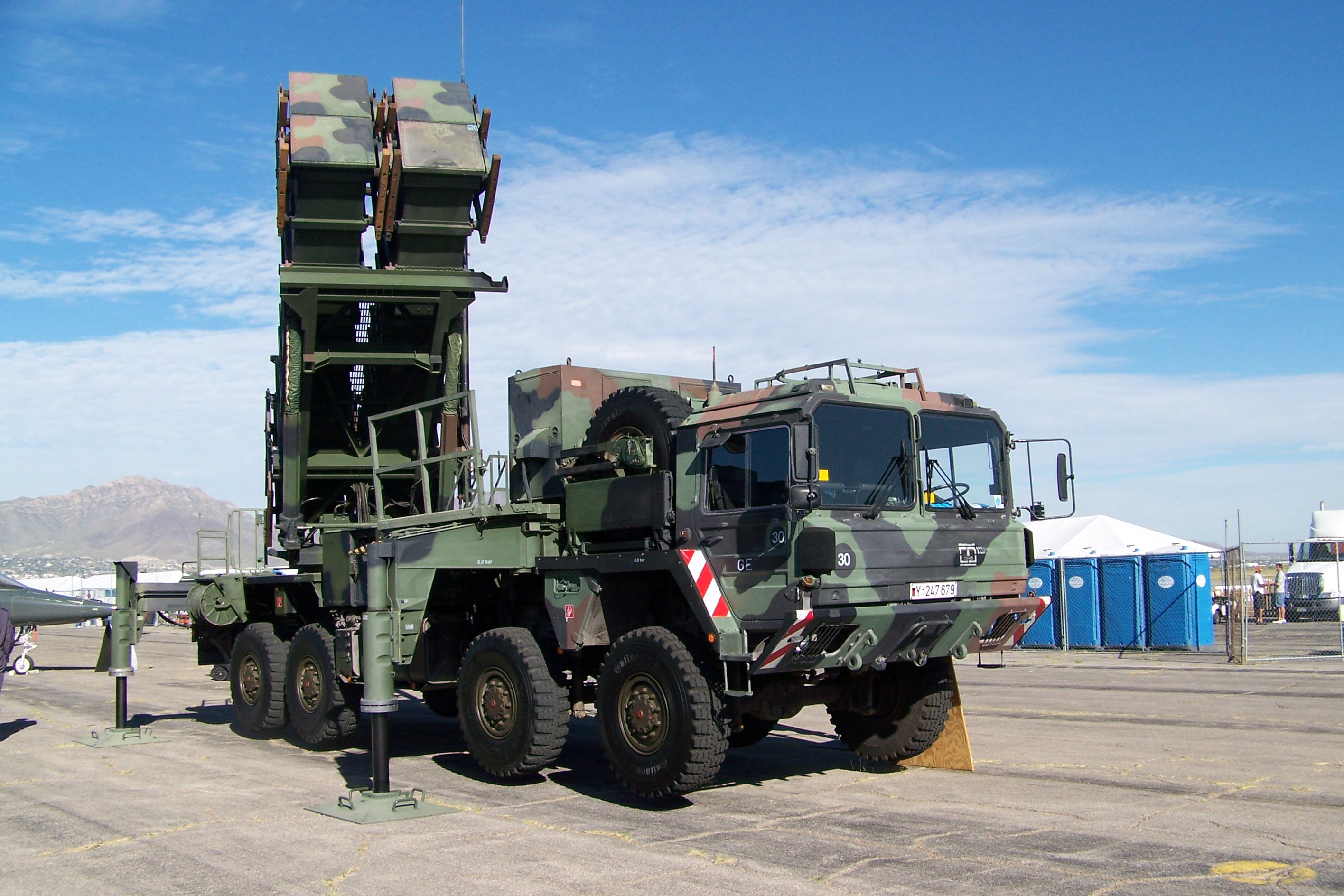 A missile launcher of a german PATRIOT surface to air missile system displayed at Fort Bliss.